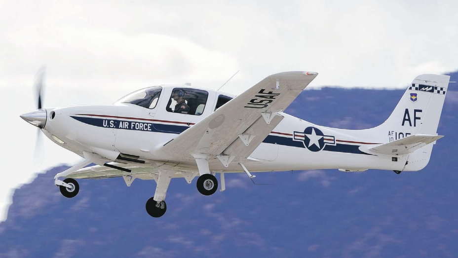 Cadets took flight Monday [April 9, 2012] in the Academy’s newest powered-flight trainer, the T-53A, which is the military equivalent of the Cirrus SR-20.